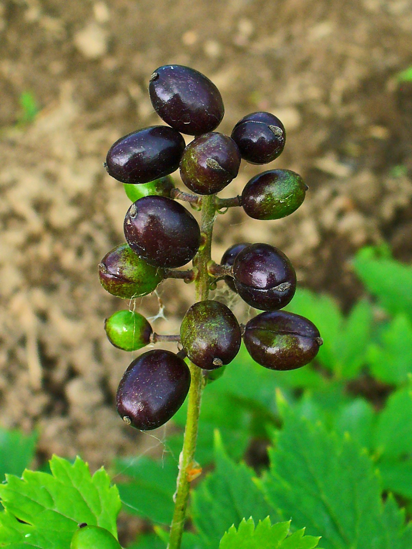 Baneberry, Eurasian Baneberry, Herb Christopher, fruits; Stutensee, Germany